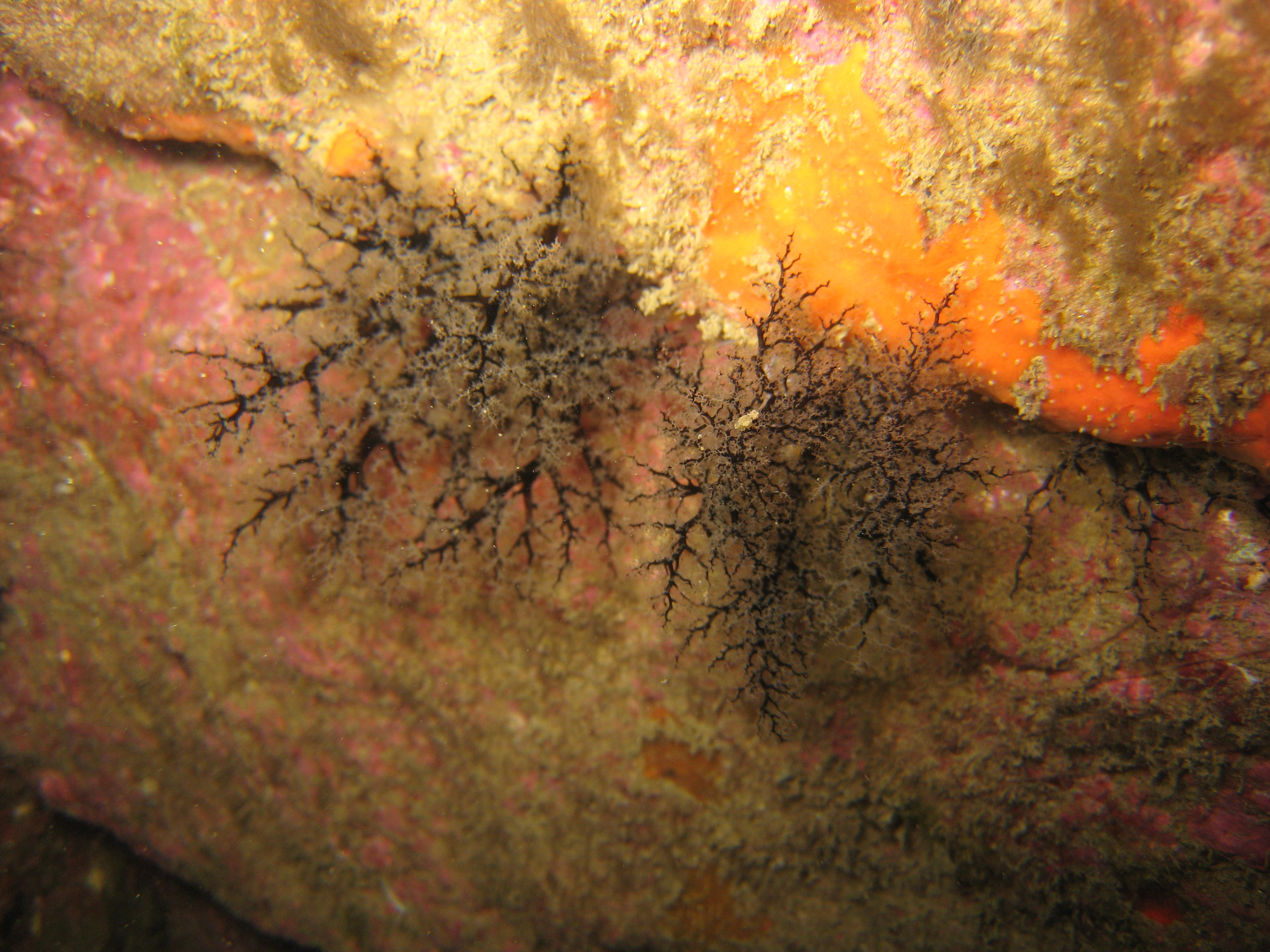 Aslia lefevrii in Carantec.